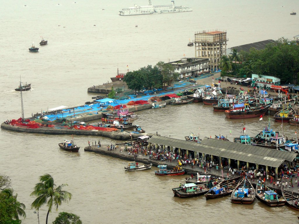 An overhead view of the Sassoon Docks, Mumbai.